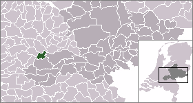 Locator map of Dutch municipalities in Gelderland (LocatieCulemborg.png)